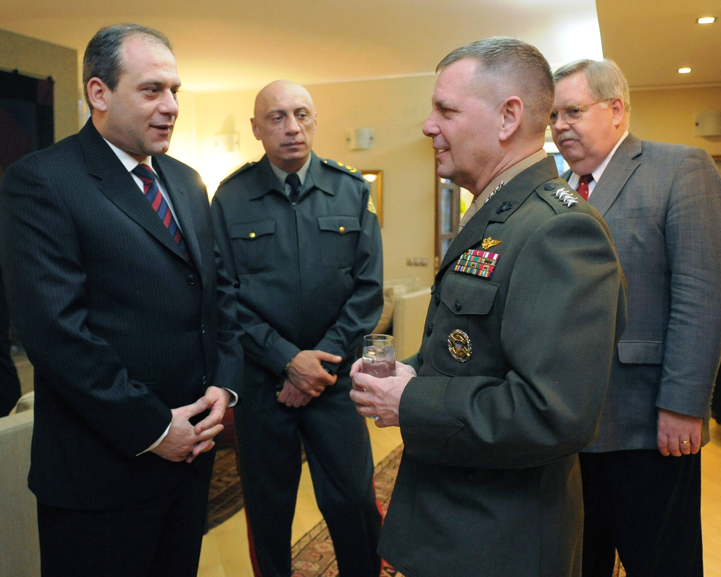 From left, Georgian Minister of Defense David Sikharulidze, Georgian Chief of Defense Maj. Gen. Devi Tchonkotadze and U.S. Ambassador to Georgia John F. Tefft listen to U.S. Marine Gen. James E. Cartwright, vice chairman of the Joint Chiefs of Staff, at a reception in Tbilisi, Georgia.